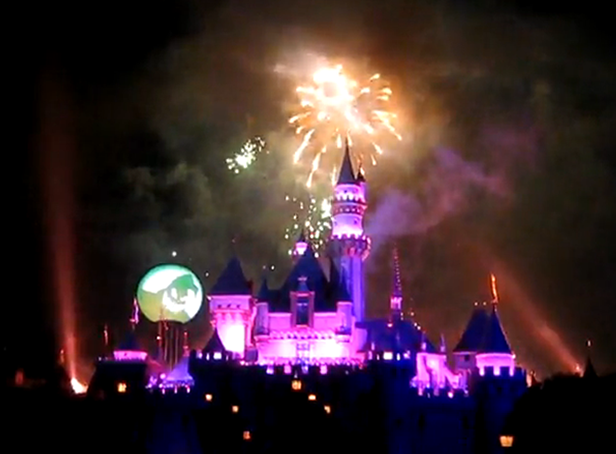 A picture of Sleeping Beauty Castle during the "Halloween Screams" fireworks show. Oogie Boogie appears as a projection to the left.